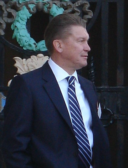 Oleg Blokhin, Ukrainian football coach